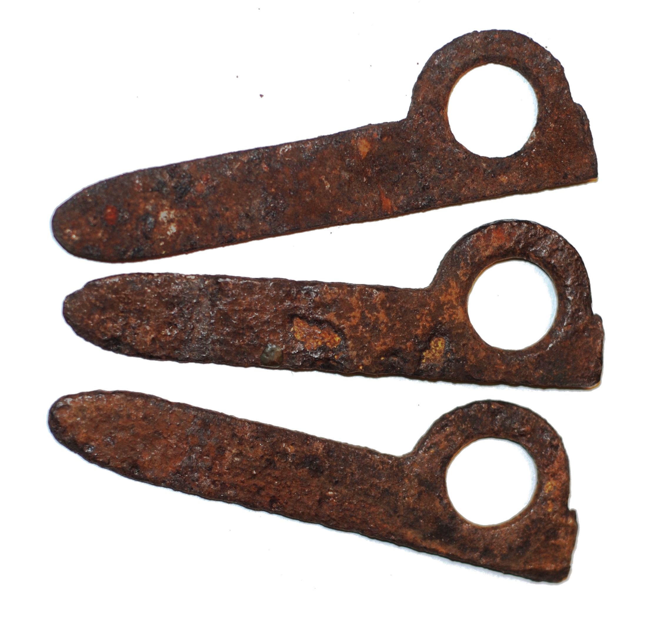 Pitons found at the base of Seneca Rocks left there in 1940's by 10th Mountain Division (United States)